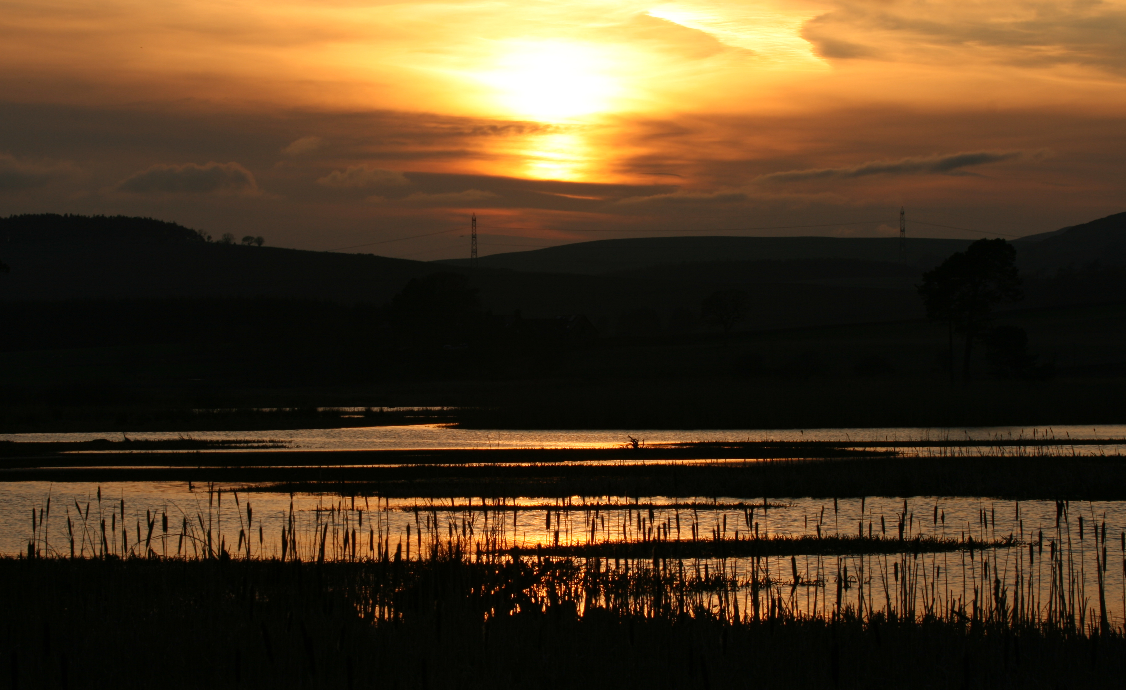 Sunset over Loch of Kinnordy Taken from one of the R.S.P.B. hides.